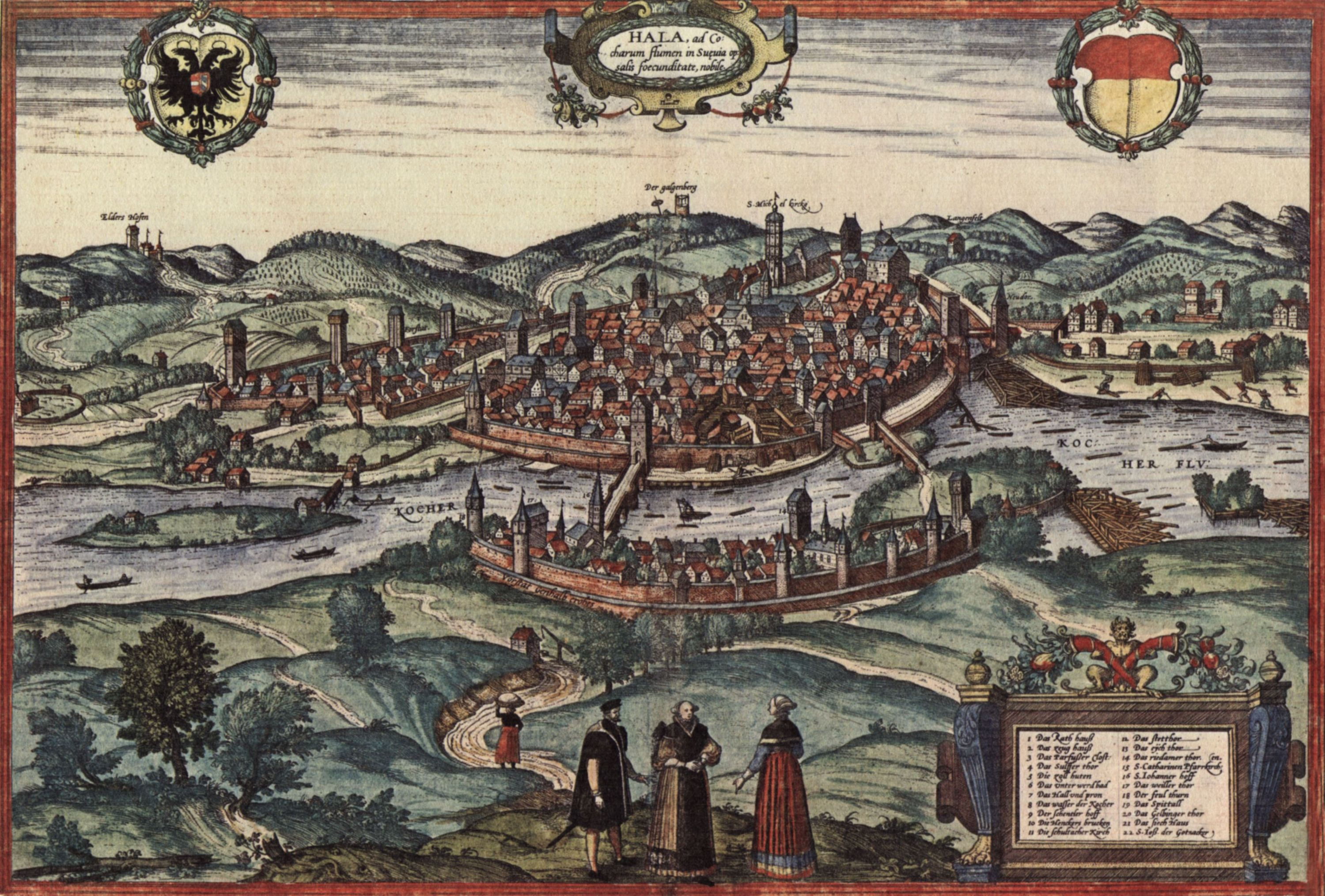 (Schwäbisch) Hall ca. 1580. Coloured copperplate engraving